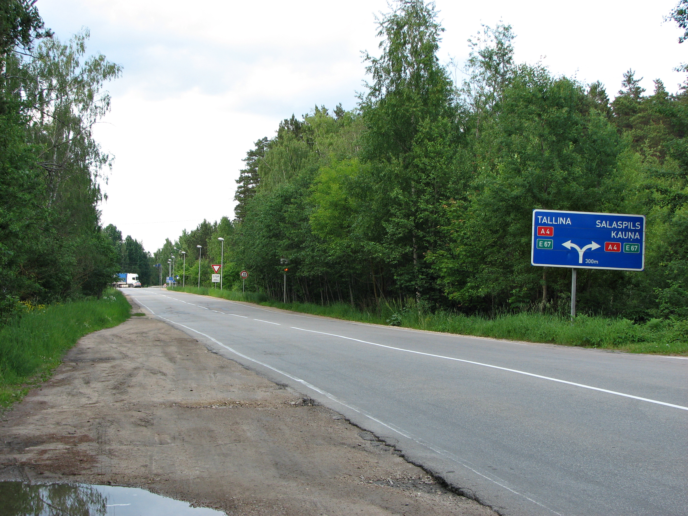 Road P2 near junction with A4Latviešu: Autoceļš P2 pirms krustojuma ar A4